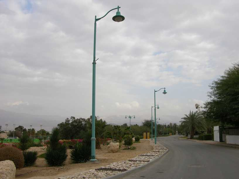 Neot HaKikar road